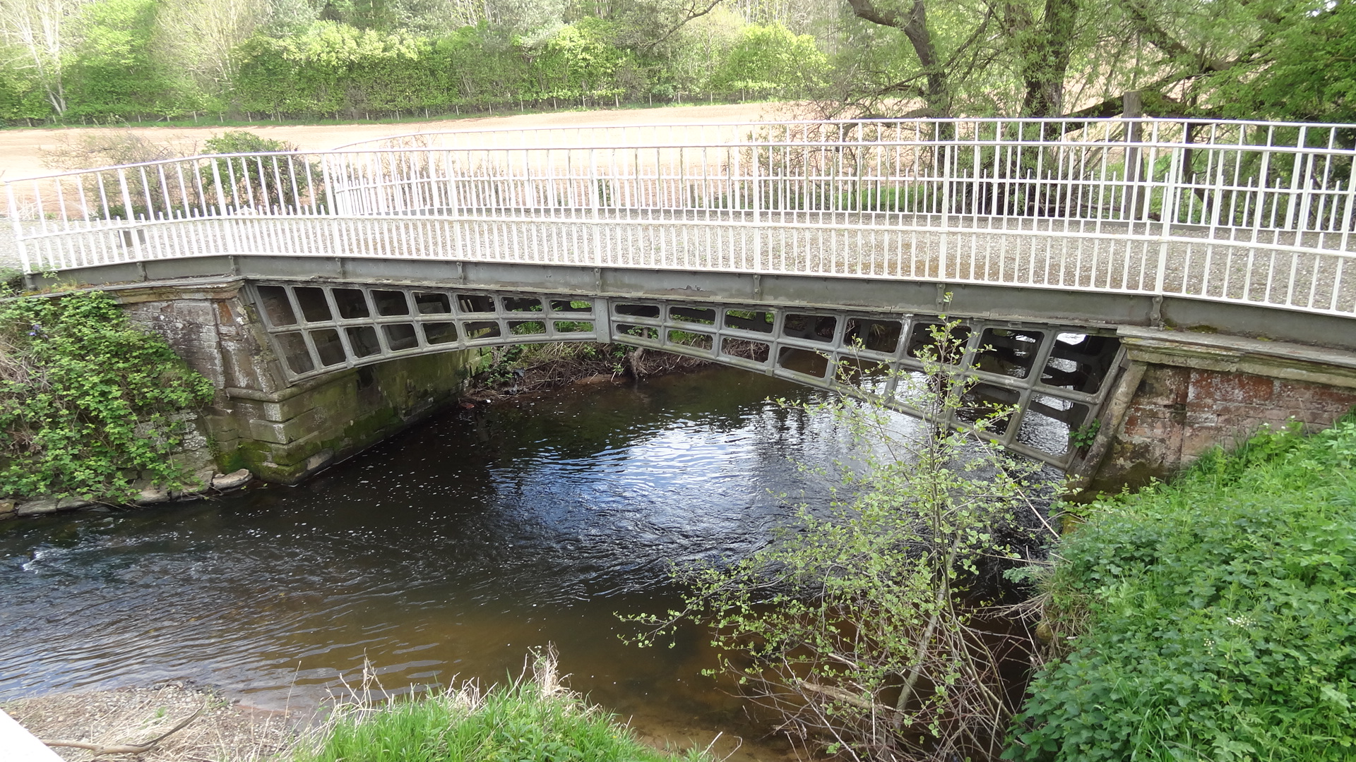 Cantelop Bridge across Cound Brook near Cantlop, Shropshire. Designed by Thomas Telford and built in 1813.